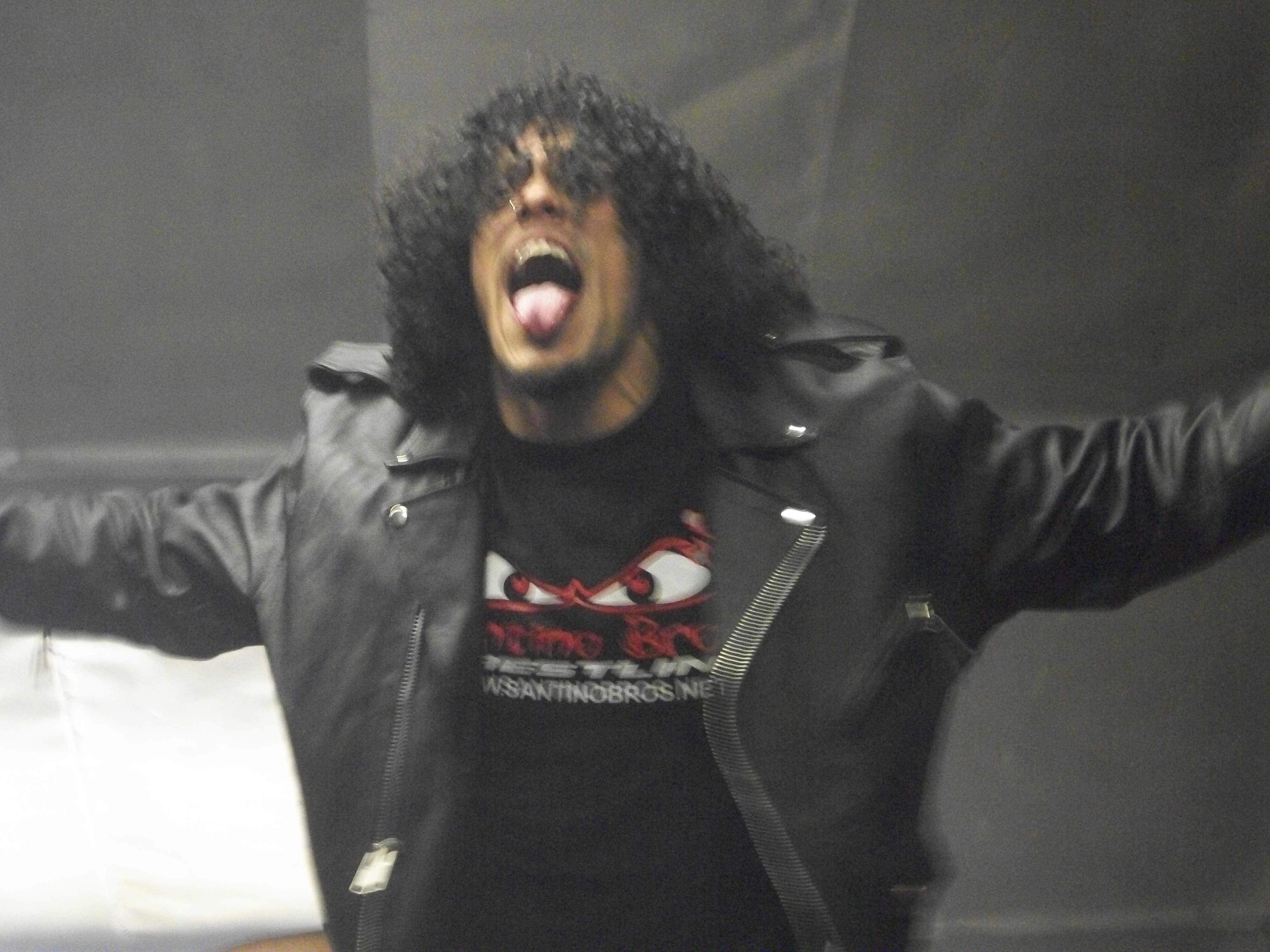 Joey Munoz posing before his match at a Santino Bros. Dojo Show